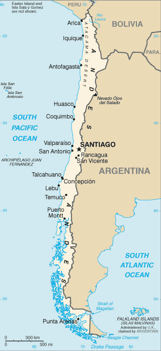 Map of Chile